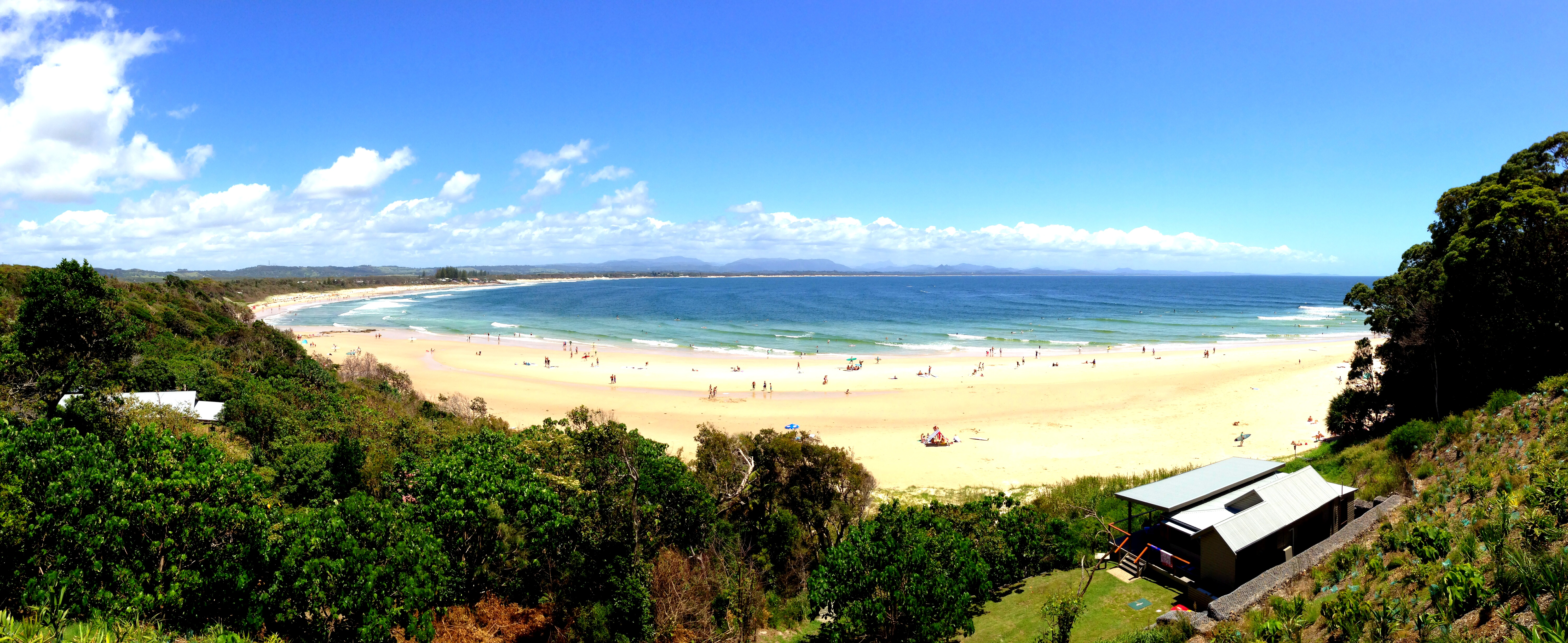 Bryon Bay, NSW, from Cape Byron walking track beside Lighthouse Road, in Cape Byron State Conservation Park. Imeson Cottage in foreground.